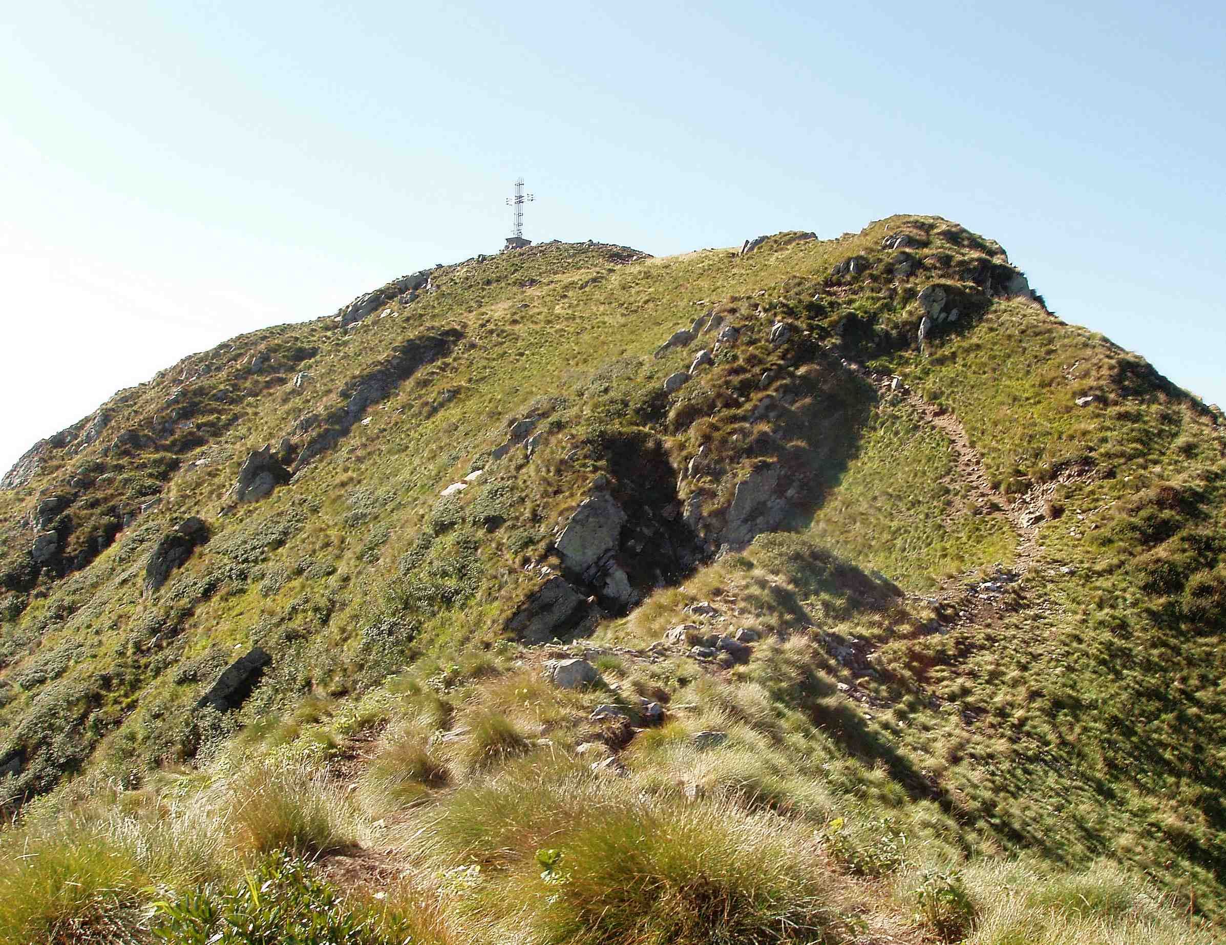 Massa del Turlo (VB/VC, Italy) as seen from North